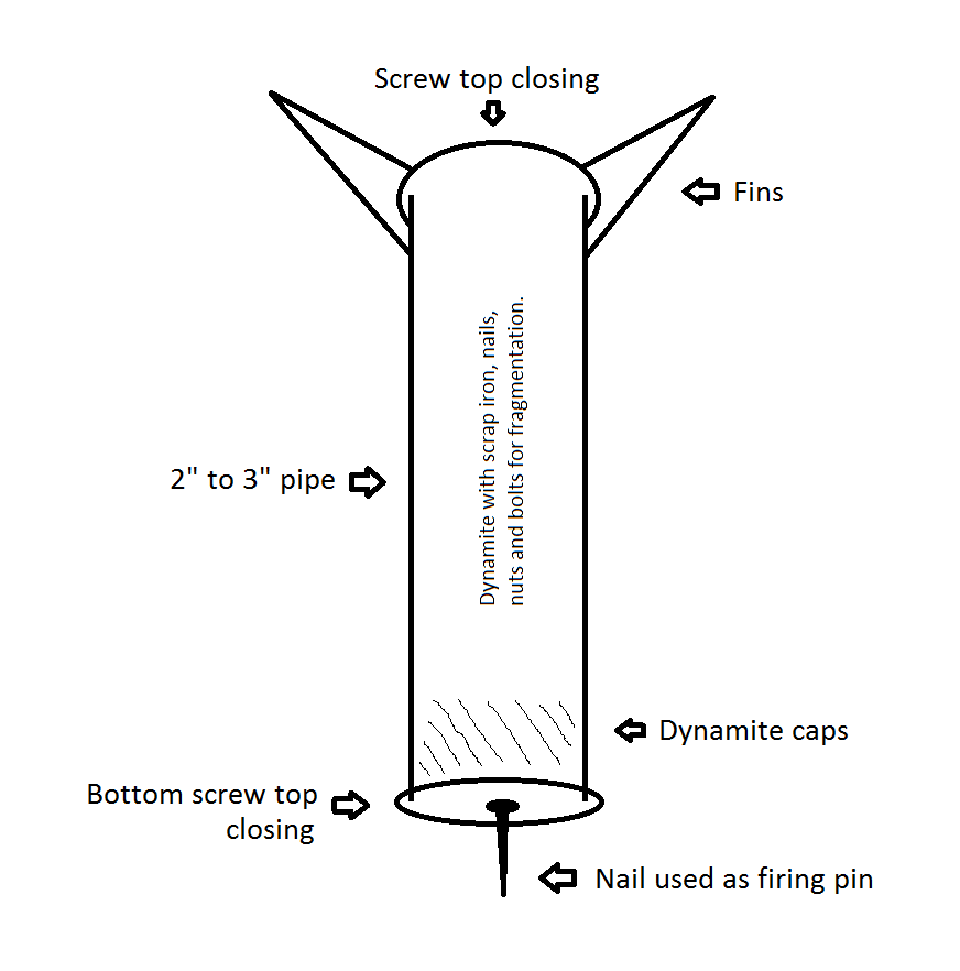 A diagram of a improvised "suitcase bomb" used during the Cristero War in Naco, Sonora, Mexico in 1929, based on the one that appears here